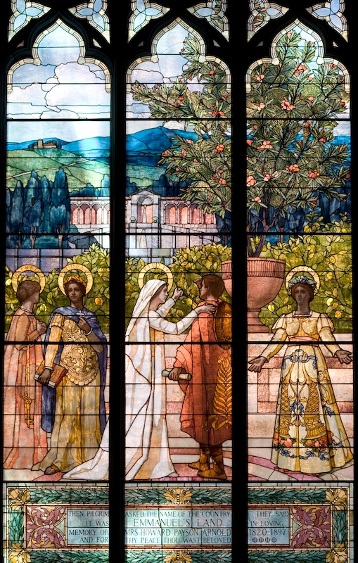 Emmanuel's Land Window at Emmanuel Church in the City of Boston(depicting Bunyan's Pilgrim's Progress. Designed by Frederic Crowninshield (1845-1918).)